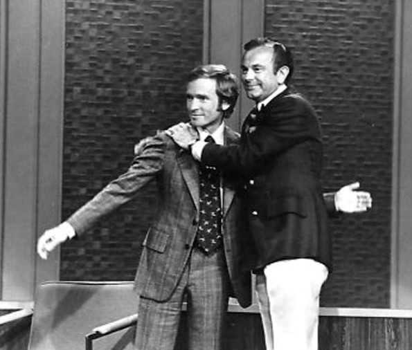 Publicity photo of Jack Paar and Dick Cavett from The Dick Cavett Show. Paar appears to announce that he will host a once monthly television talk program.